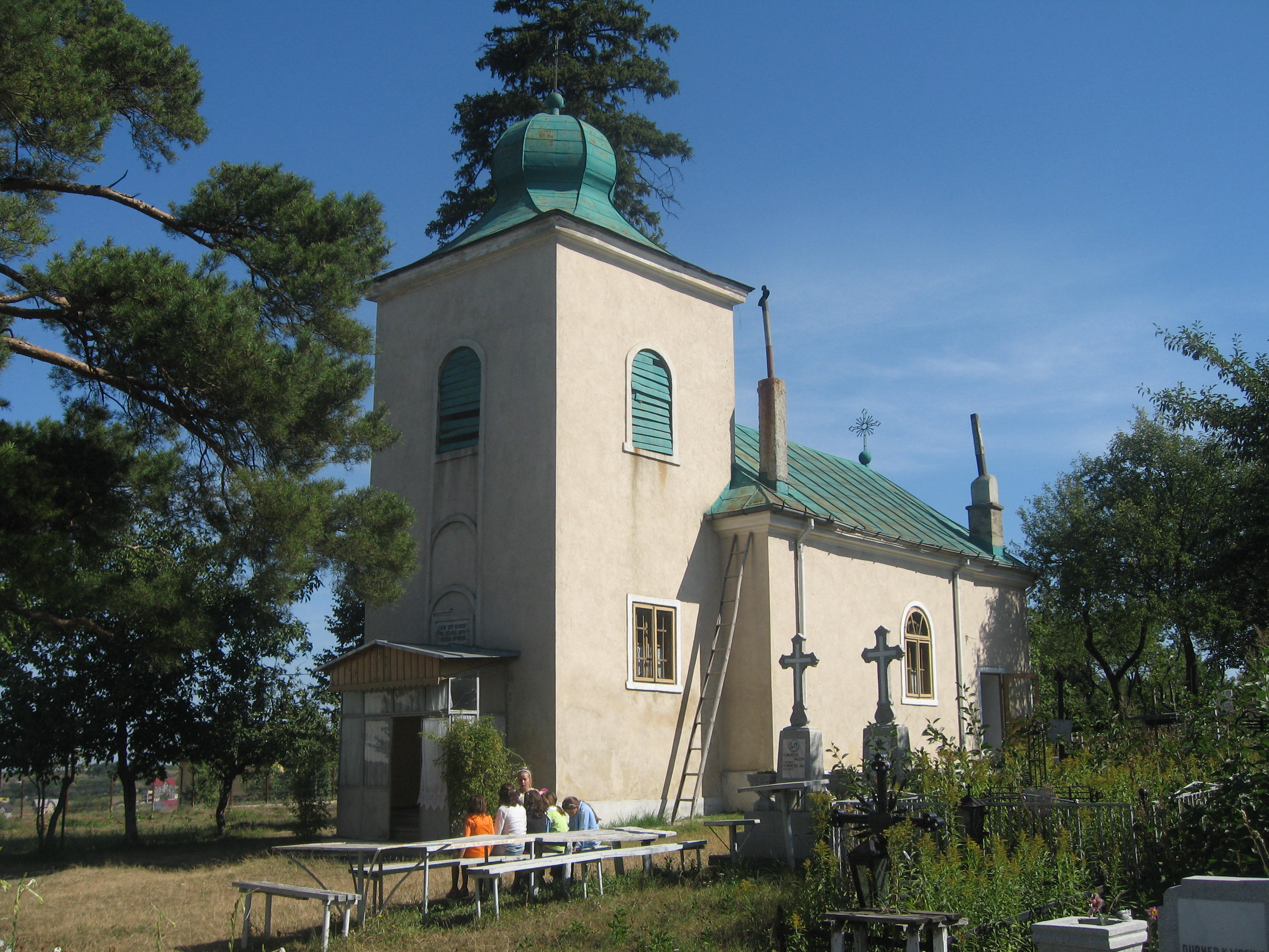 Biserica Sfintii Apostoli din Paun